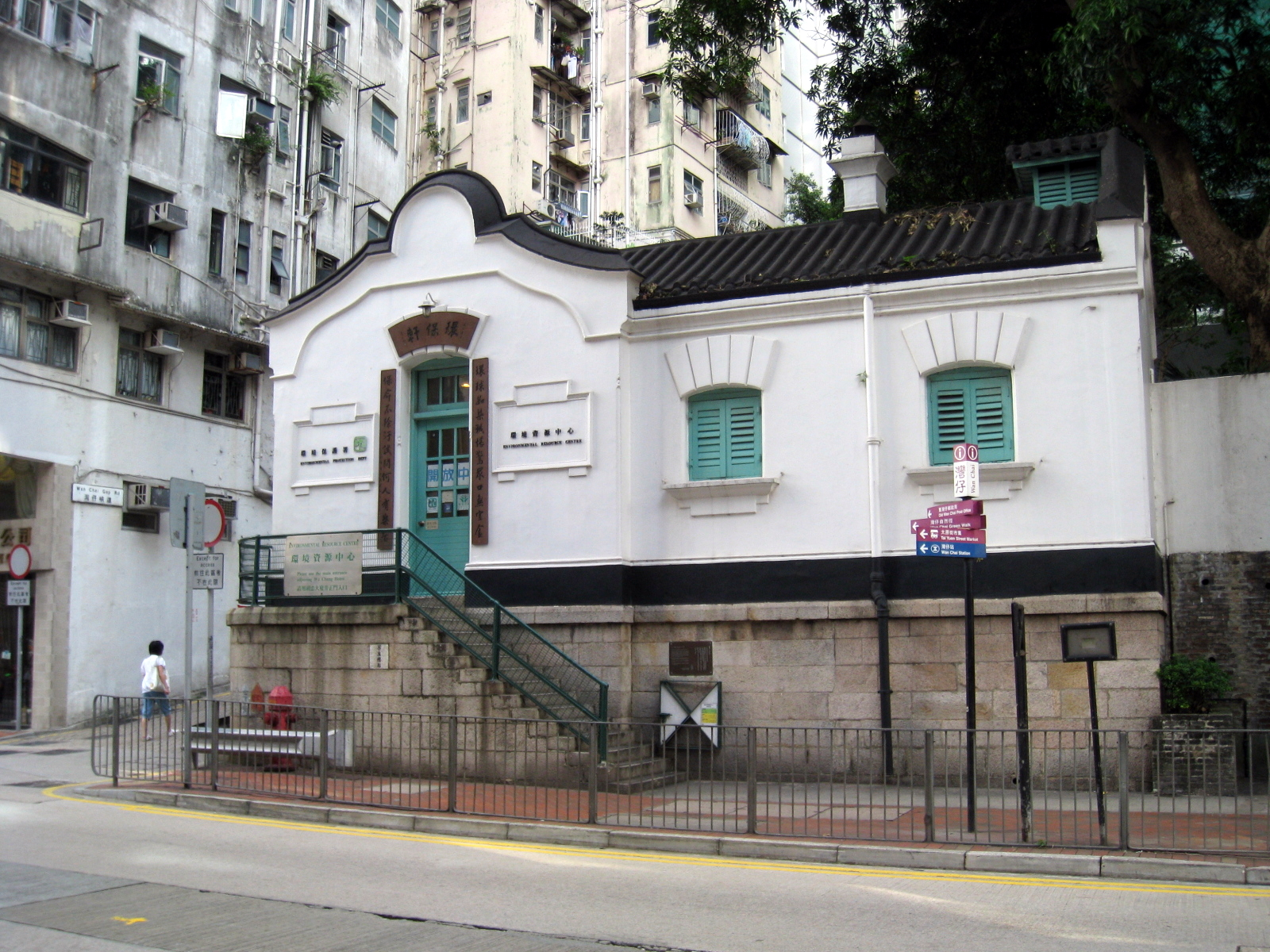 HK Old Wan Chai Post Office 舊灣仔郵政局